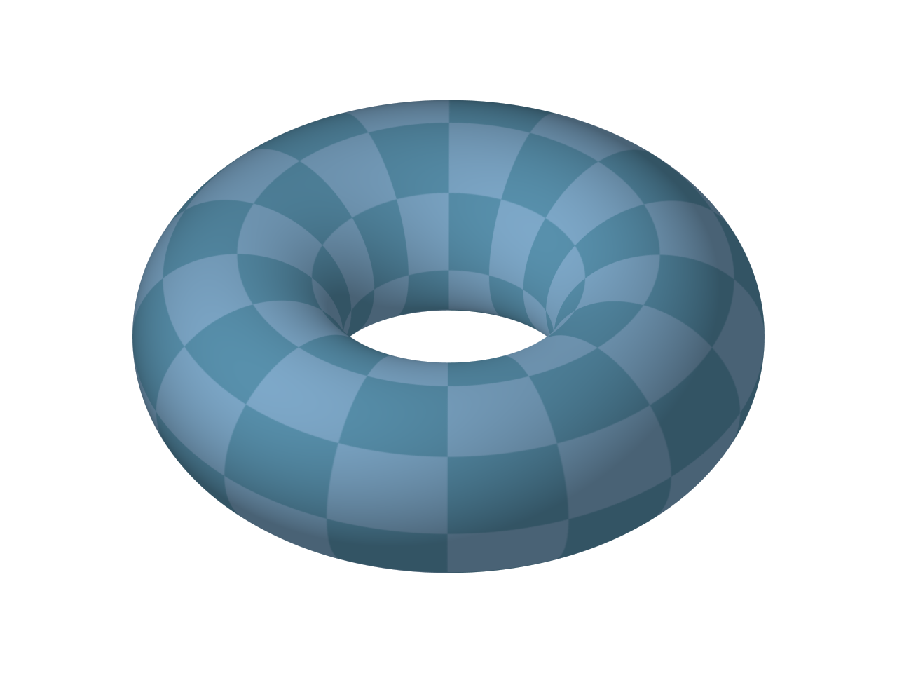 Blue torus This image was created with POV-Ray.